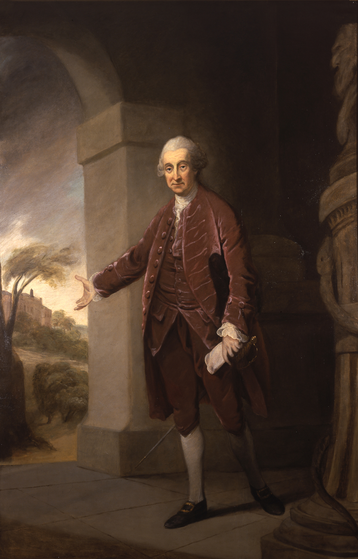 Portrait of Edward Archer (1718–1789) English physician, associated with the practice of inoculation against smallpox, at the London Small-Pox Hospital (thought to be the building to which he is gesturing through the arch).